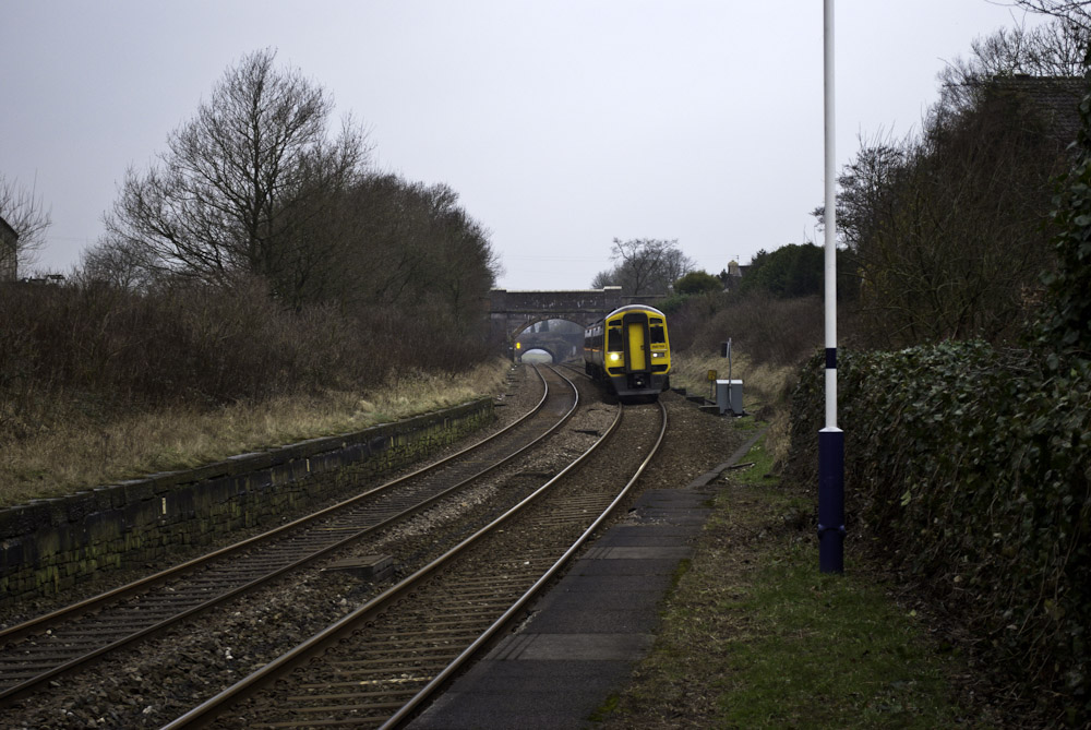 Passing through Rishton: Class 158 bound for York